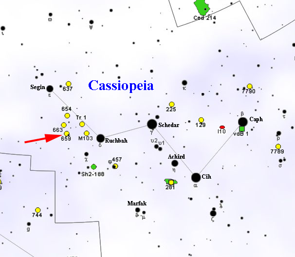 Map of NGC 659